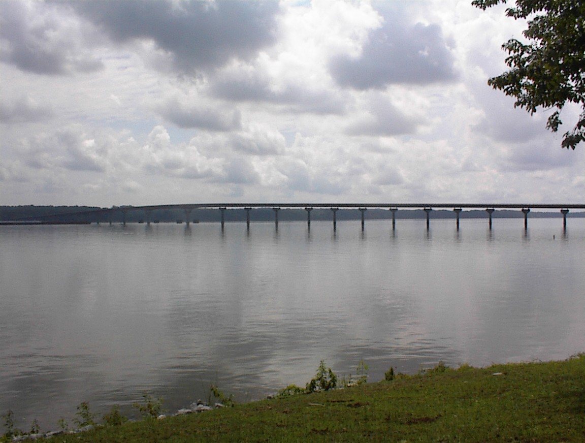 Taken by Mark Daily on June 29, 2004 with a HP digital camera.